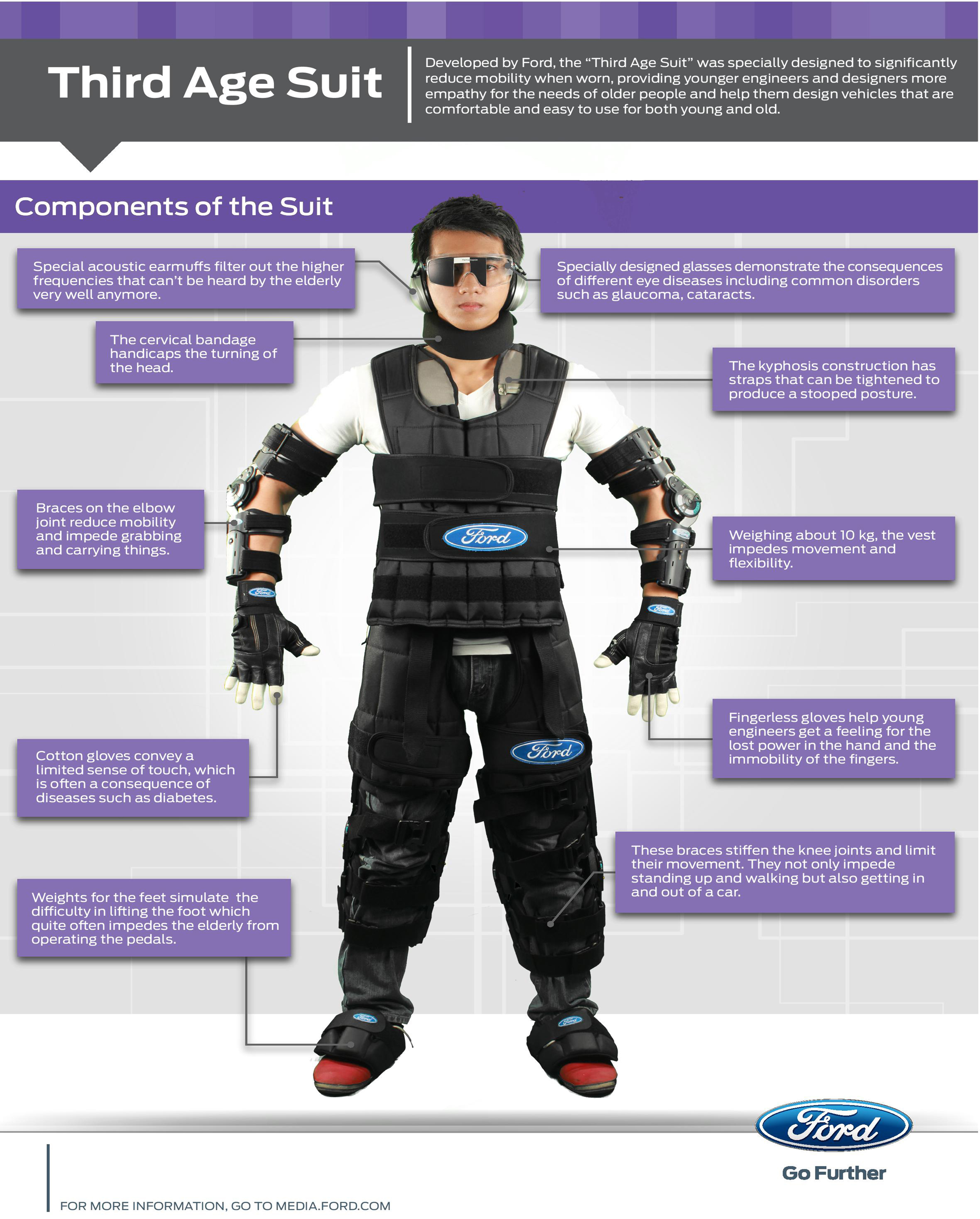 The suit has orthoses for every limb to make joints feel stiff, a corset and a 10kg vest to simulate weak and bent back, a neck brace to impede head movements and arthritis-simulating gloves make it difficult to manipulate small objects, like radio or air-conditioning controls. The suit is also equipped with a set of glasses to mimic various eyesight disorders including glaucoma and cataracts, ear muffs to simulate deteriorated hearing and a tremor generator attached to the hand.